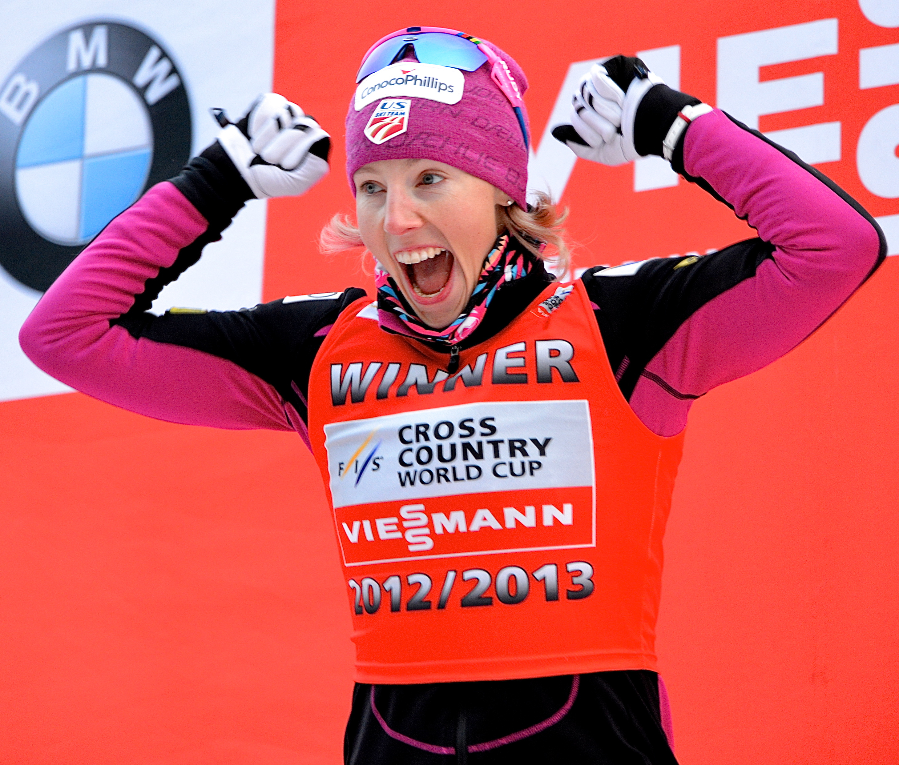 Kikkan Randall at Royal Palace Sprint 2013 in Stockholm and the total winner of the sprint cup 2012/13.